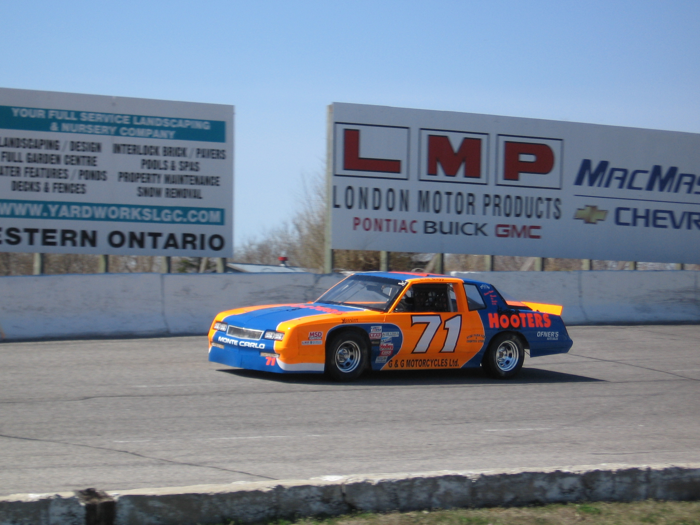 Photo of a Delaware Speedway Street Stock.